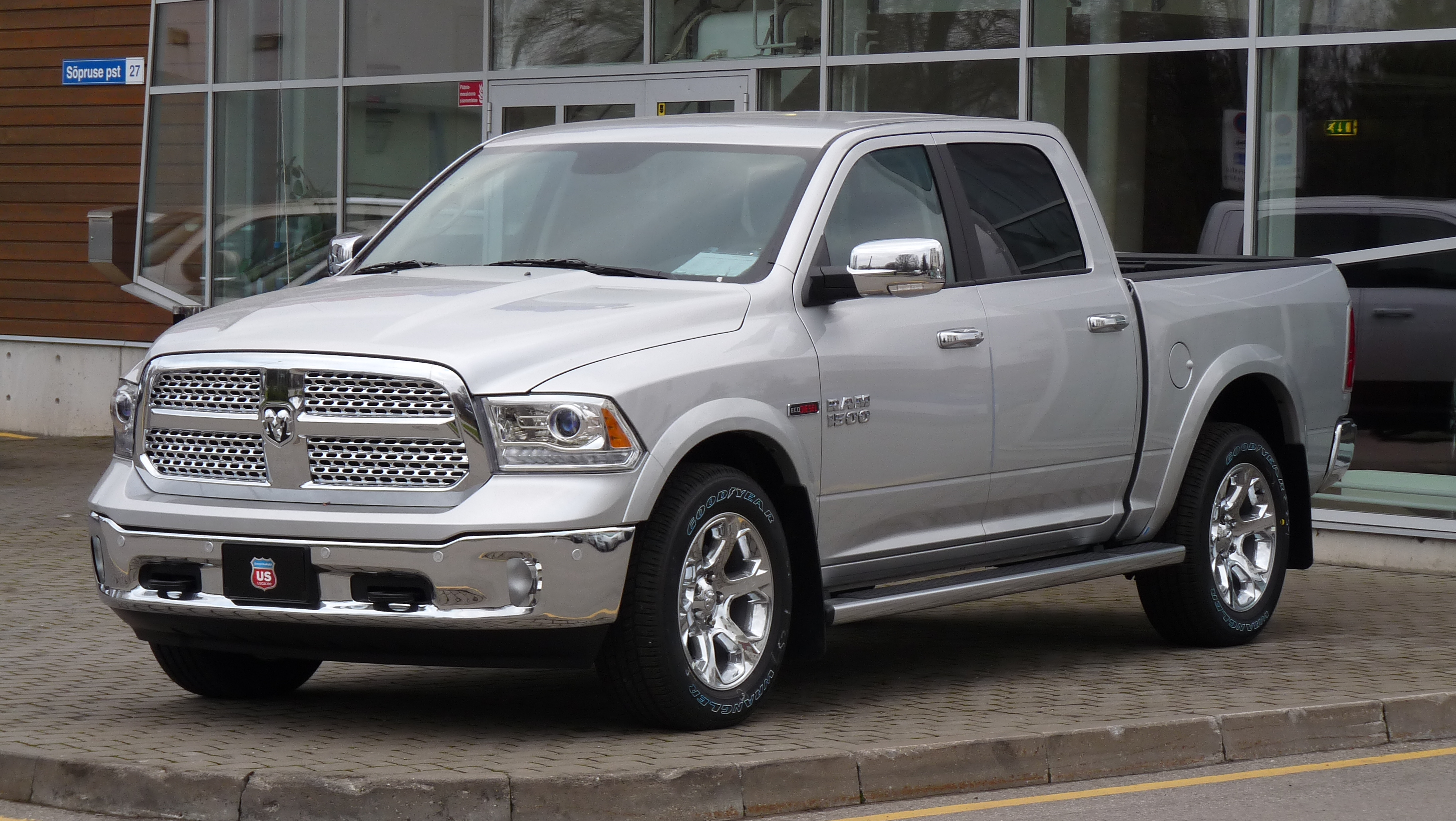 RAM 1500 in Tallinn, Estonia